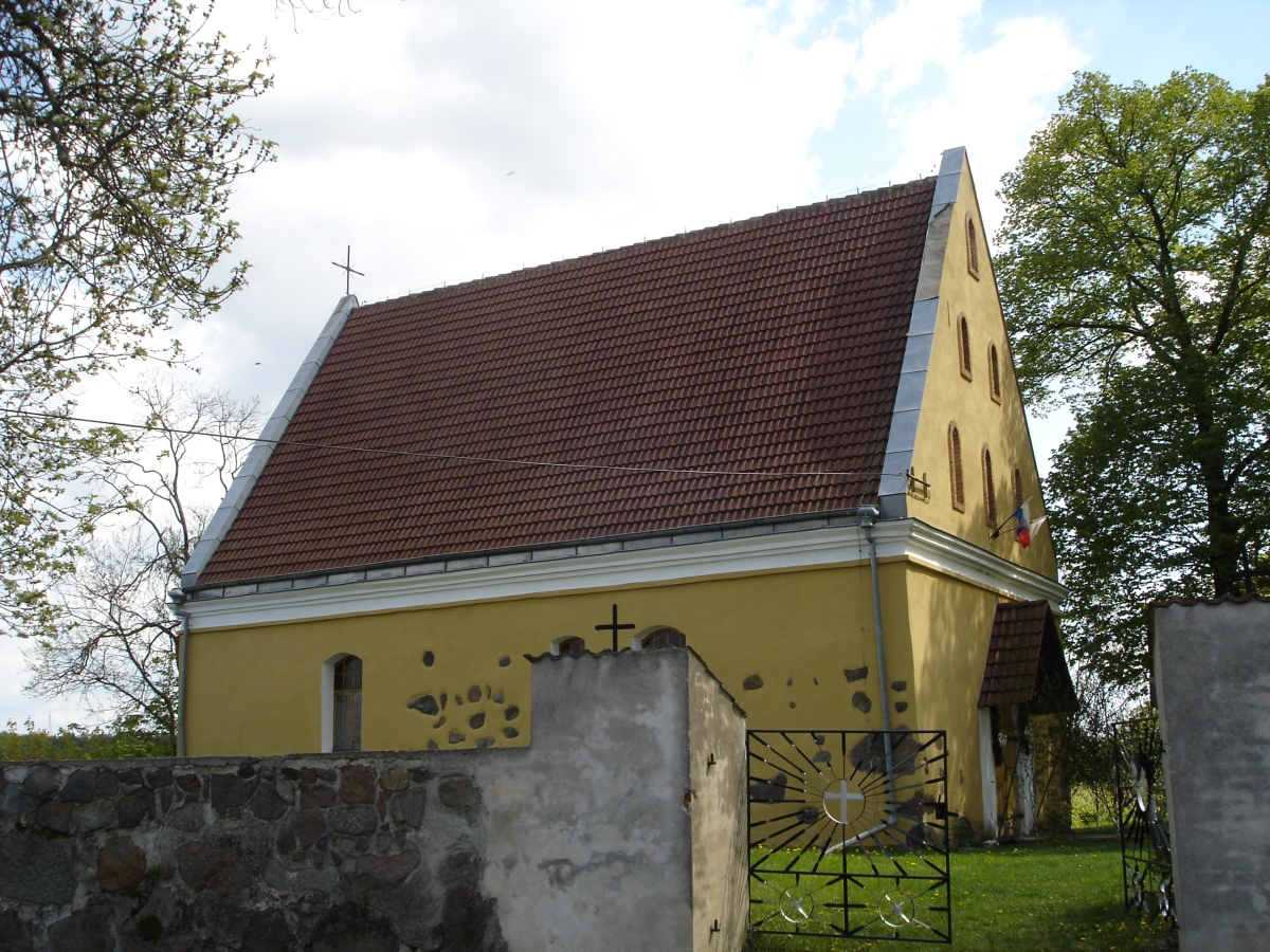 Church in Bralęcin (Stargard County), Poland